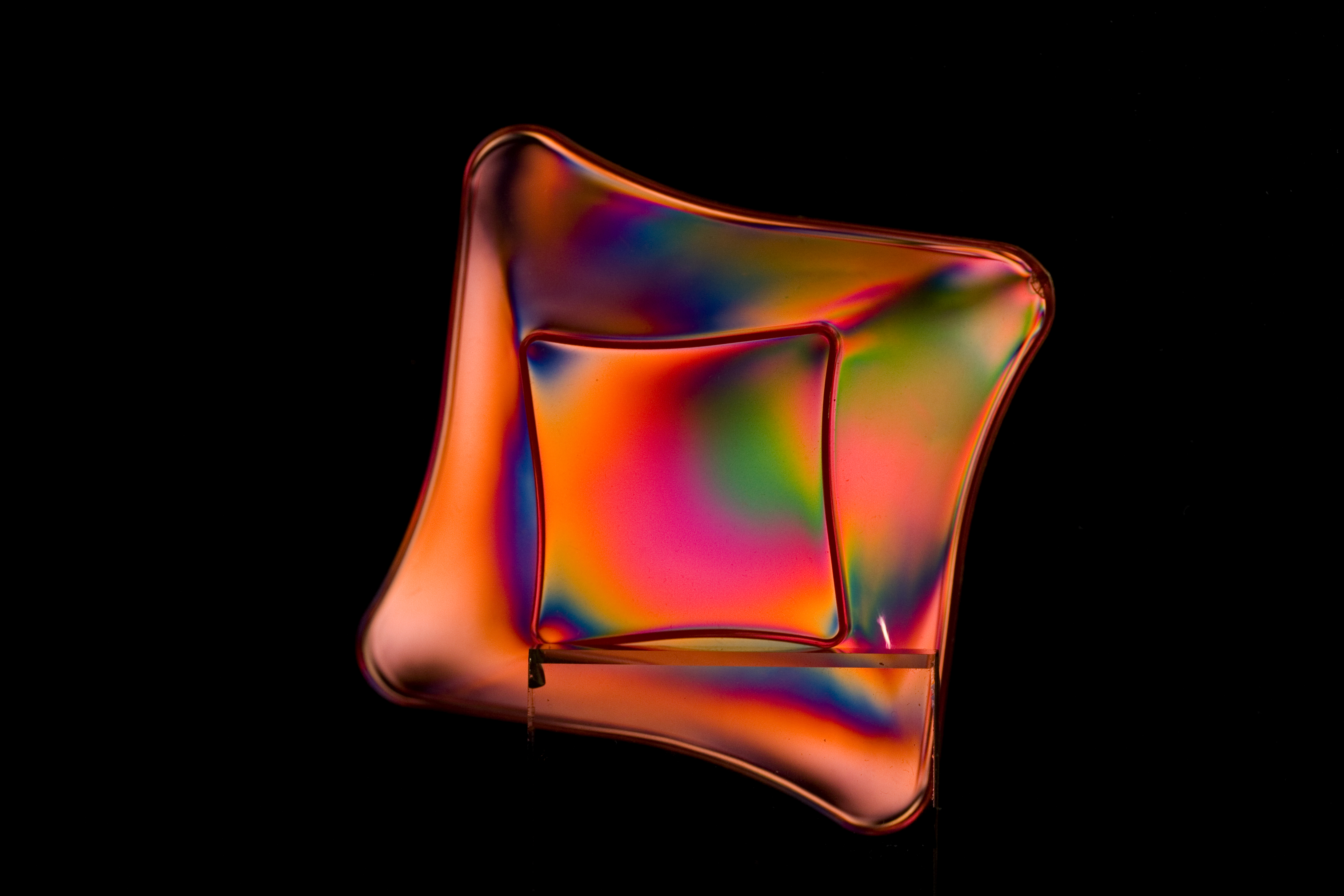 A plasticplate placed between two crossed polarizers appears intense and beautiful colors. According to the theory of photoelasticity, the allocation of the colors gives information about the existence and the allocation of stresses in the material of the ruler. These stresses may be a result of external forces or may be permanent stresses because of the procedure the plastic plate was manufactured (as it happens in the case of this picture).